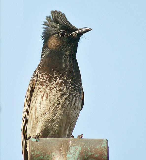 Red-vented Bulbul Pycnonotus cafer in Kolkata, West Bengal, India.